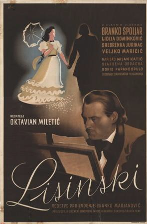 Film poster of "Lisinski", 1944